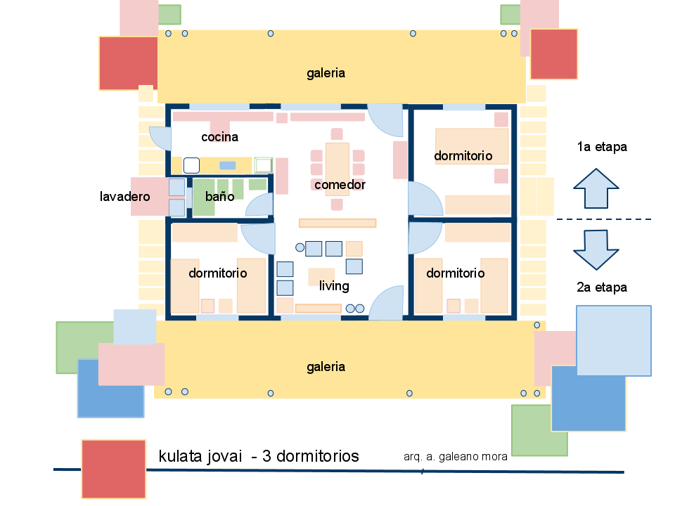 Kulata Jovai House .modern